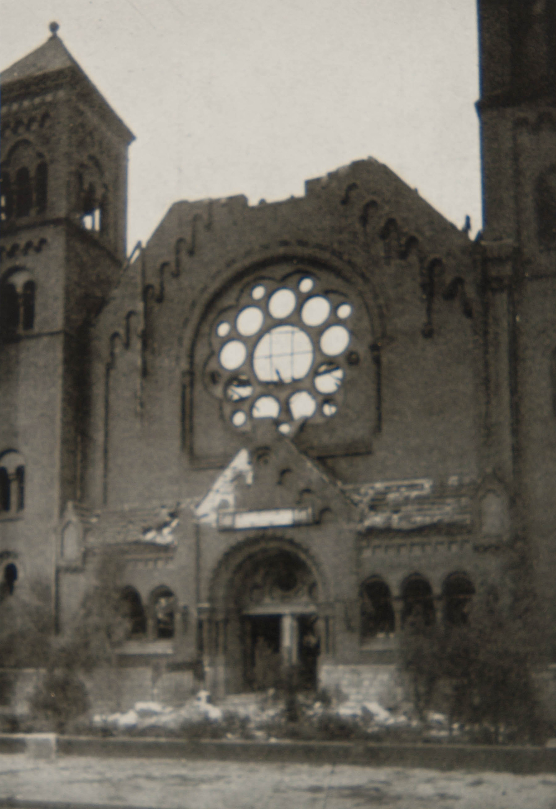 Zerstörte Kapernaumkirche nach dem Zweiten Weltkrieg